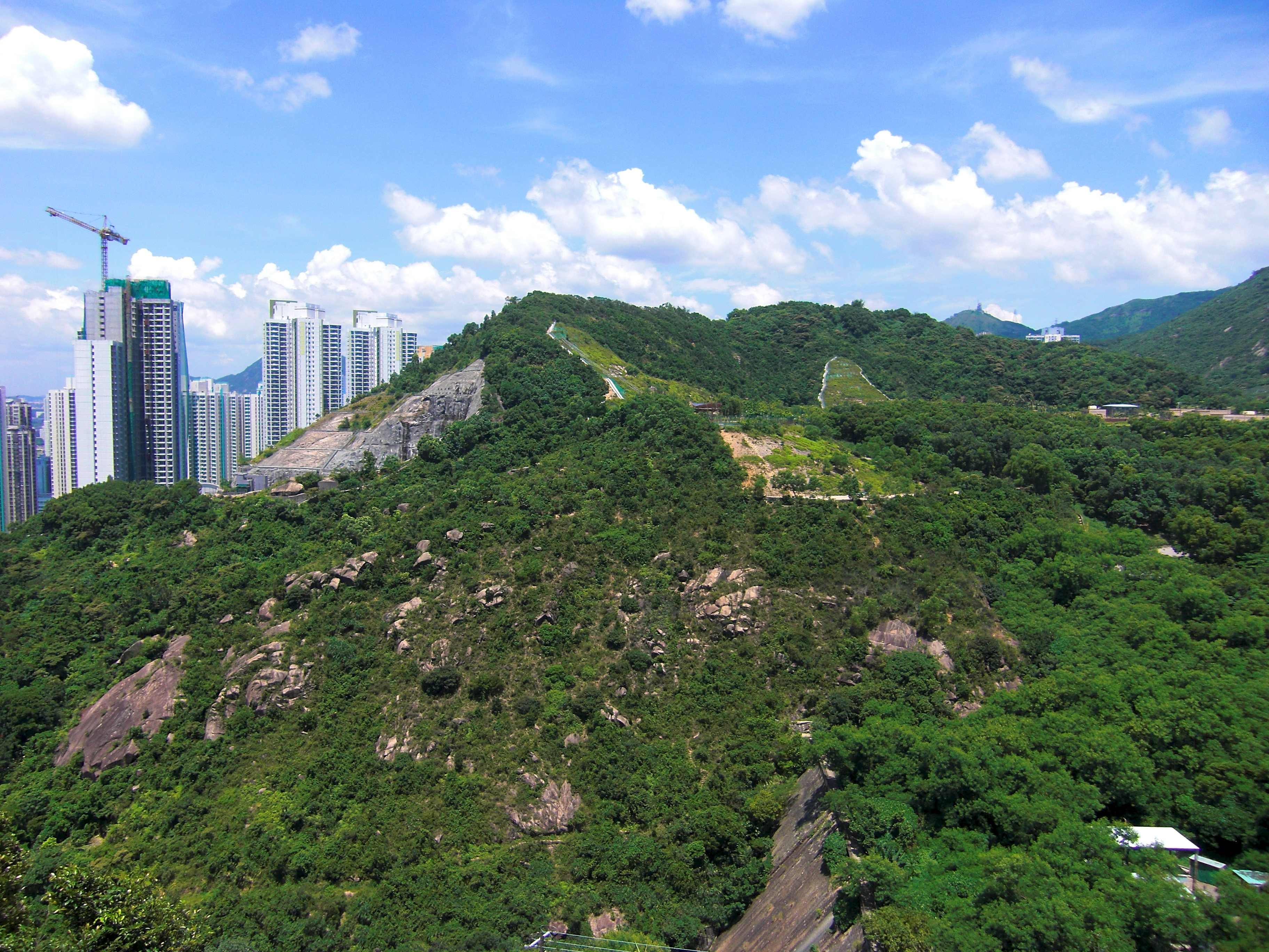 Looking towards the northeast from Shum Wan Shan, the northeast side of Ping Shan is seen.